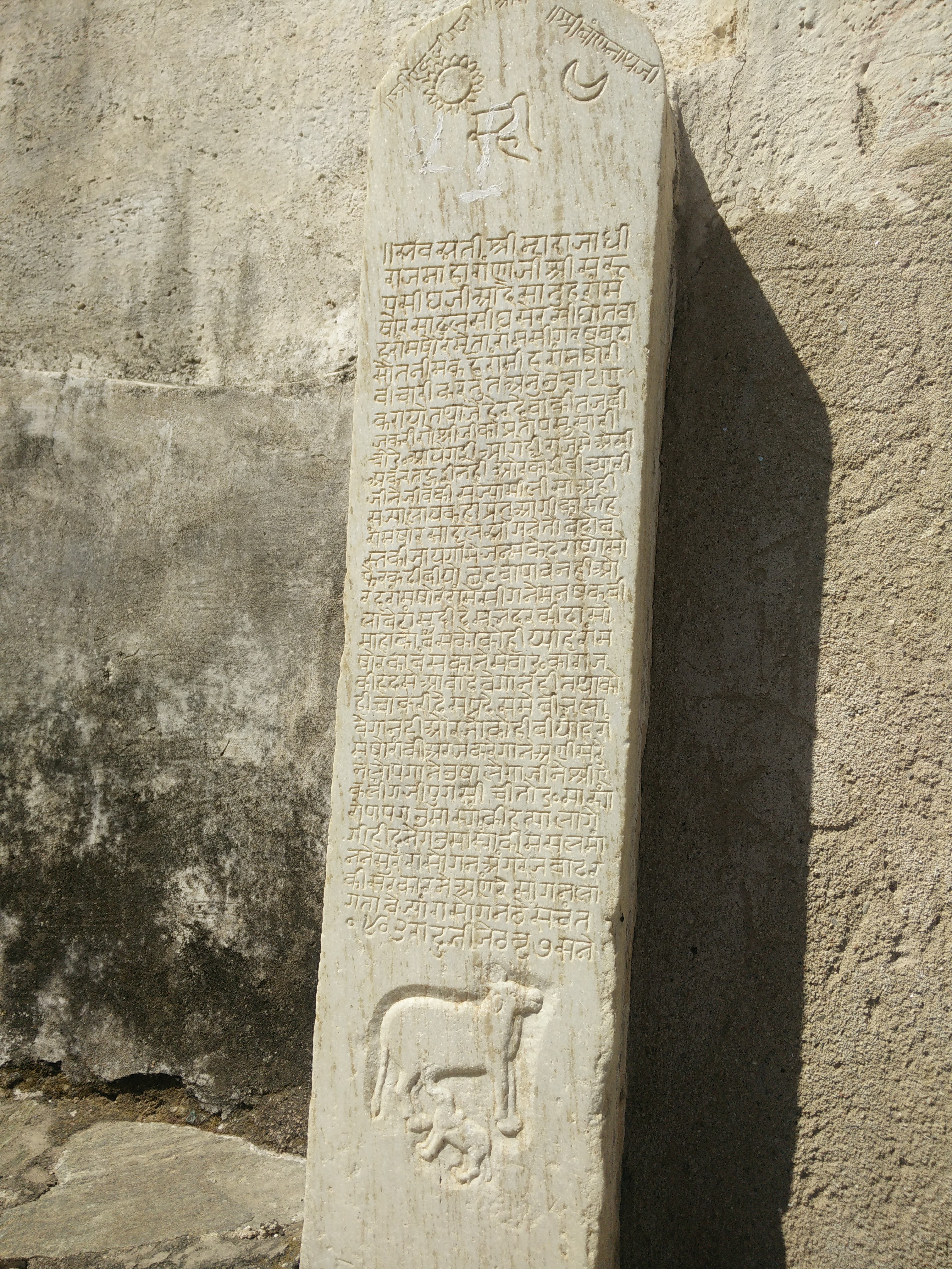 Memorial stone at Kumbhalgarh, Rajasthan